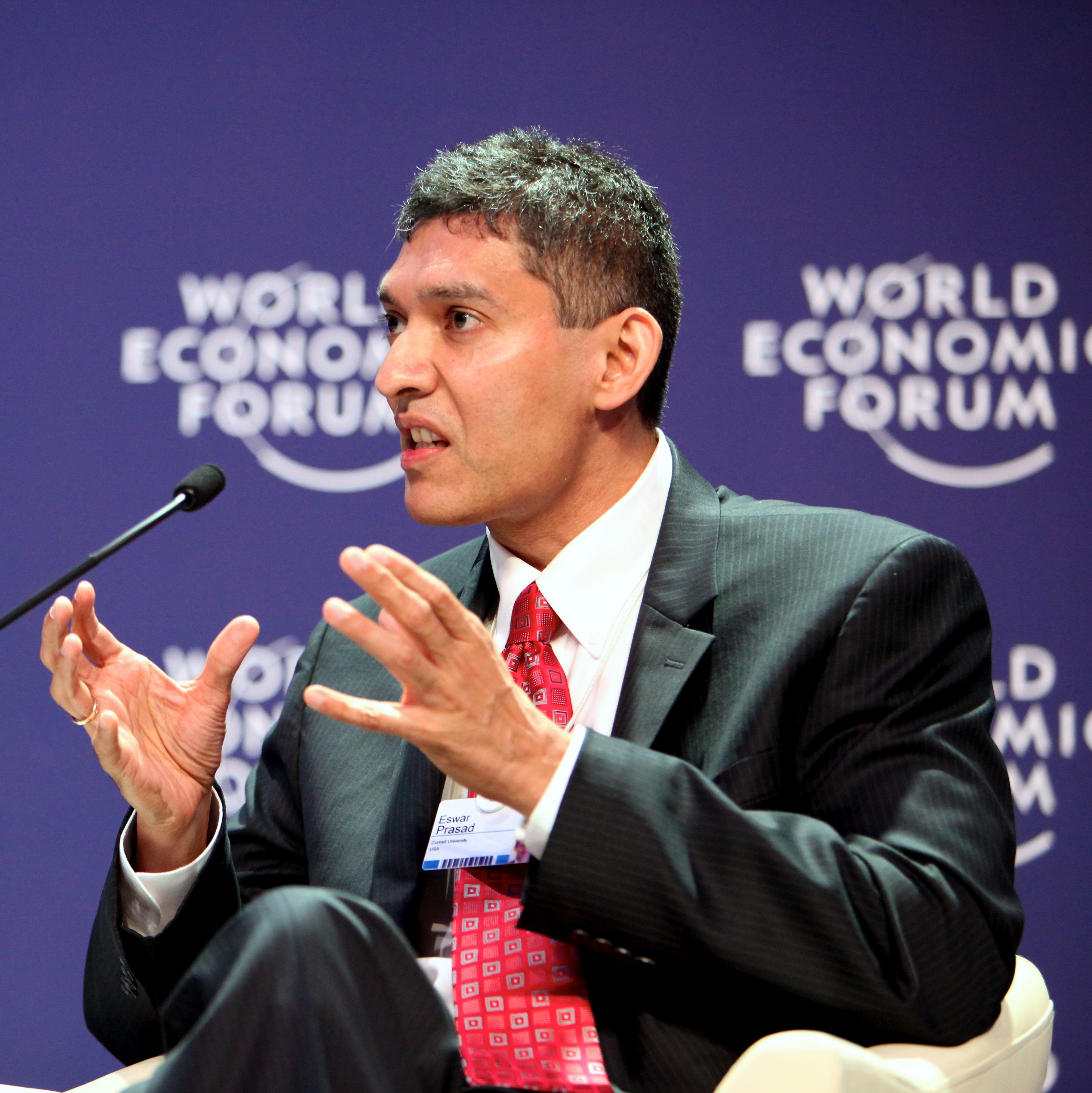 BANGKOK/THAILAND, 31MAY12 - Eswar Prasad, Professor, Cornell University, USA, is captured during the World Economic Forum on East Asia in Bangkok, Thailand, May 31, 2012. Copyright World Economic Forum Photo by Sikarin Thanachaiary